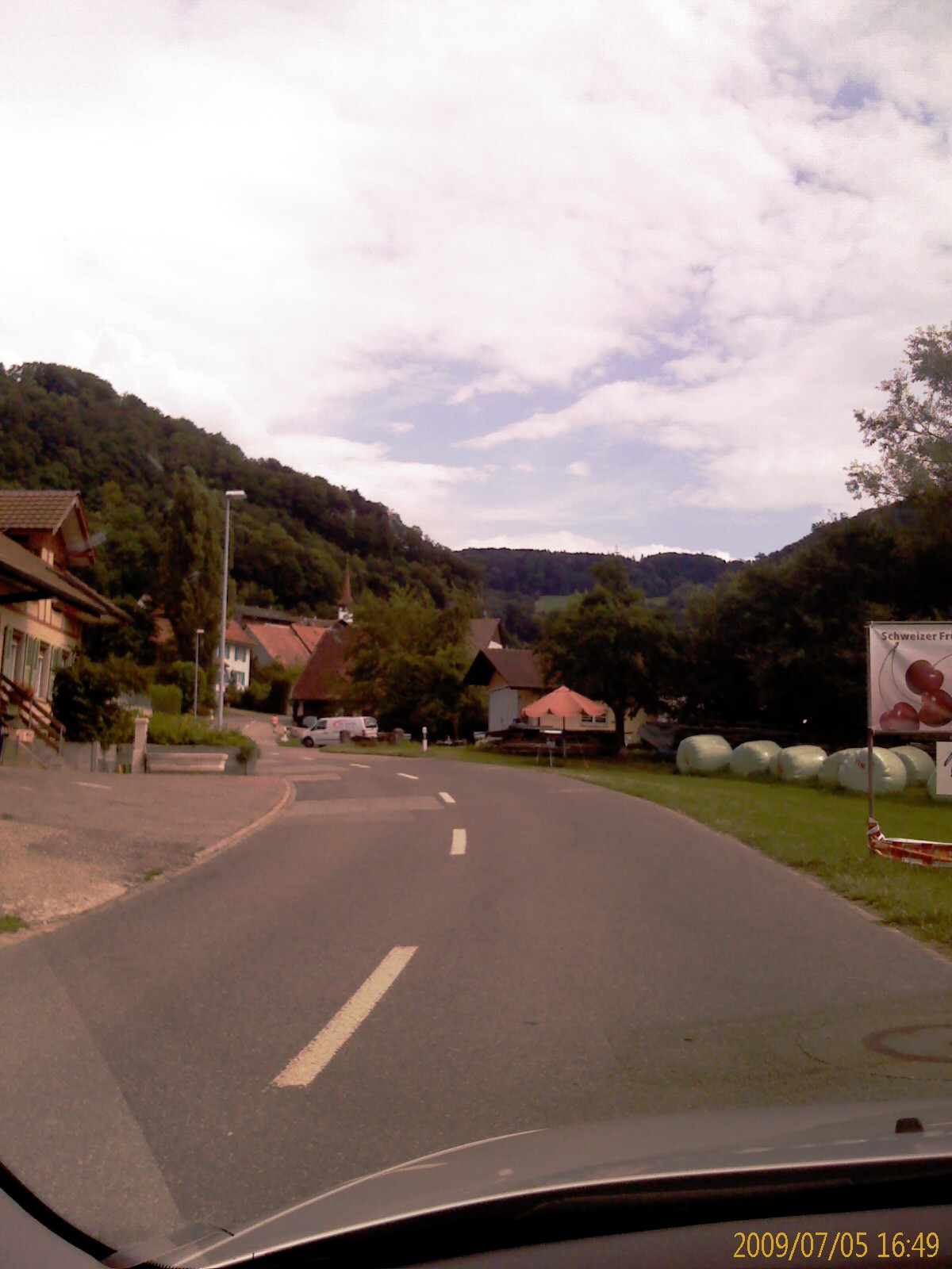 Kienberg, canton of Solothurn, SwitzerlandEsperanto: Kienberg, Kantono Soloturno, Svislando